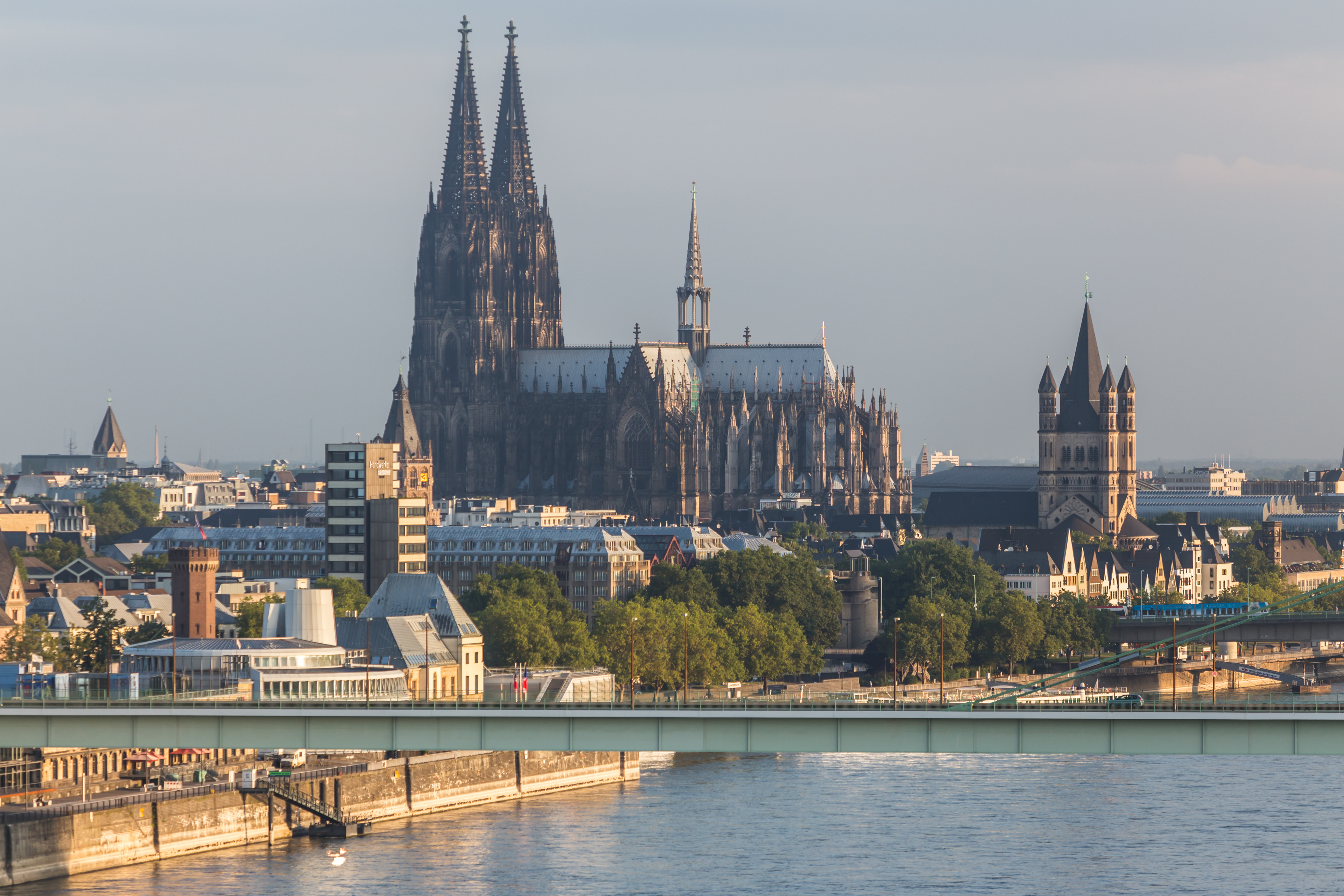 Hot air ballooning trip across Cologne; Tower of City Hall, Kölner Dom, Great St. Martin Church